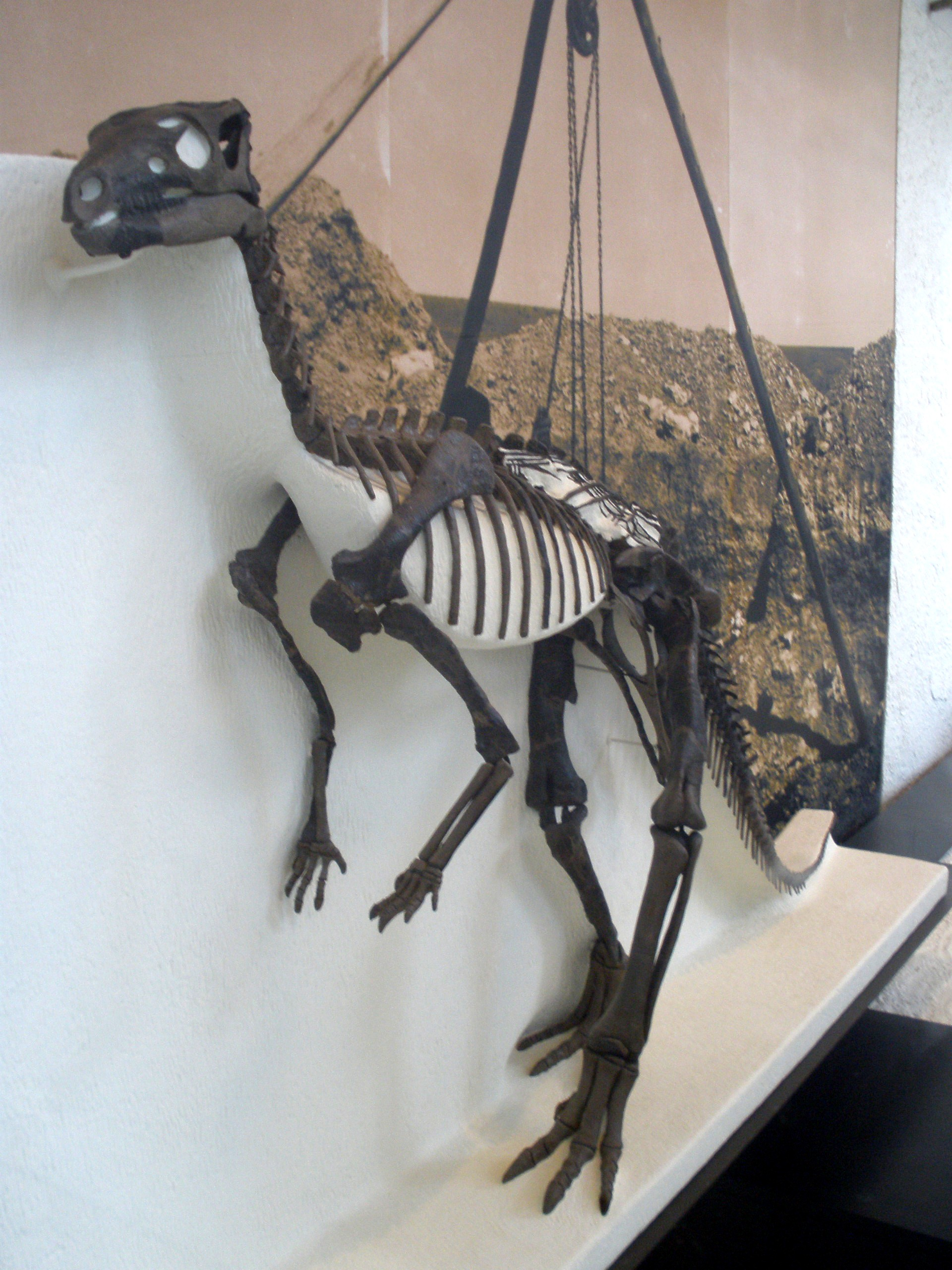 Skeleton of Camptosaurus nanus (dispar), specimen AMNH 6120